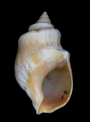 Buccinanops cochlidium (Dillwyn, 1817); family Nassariidae